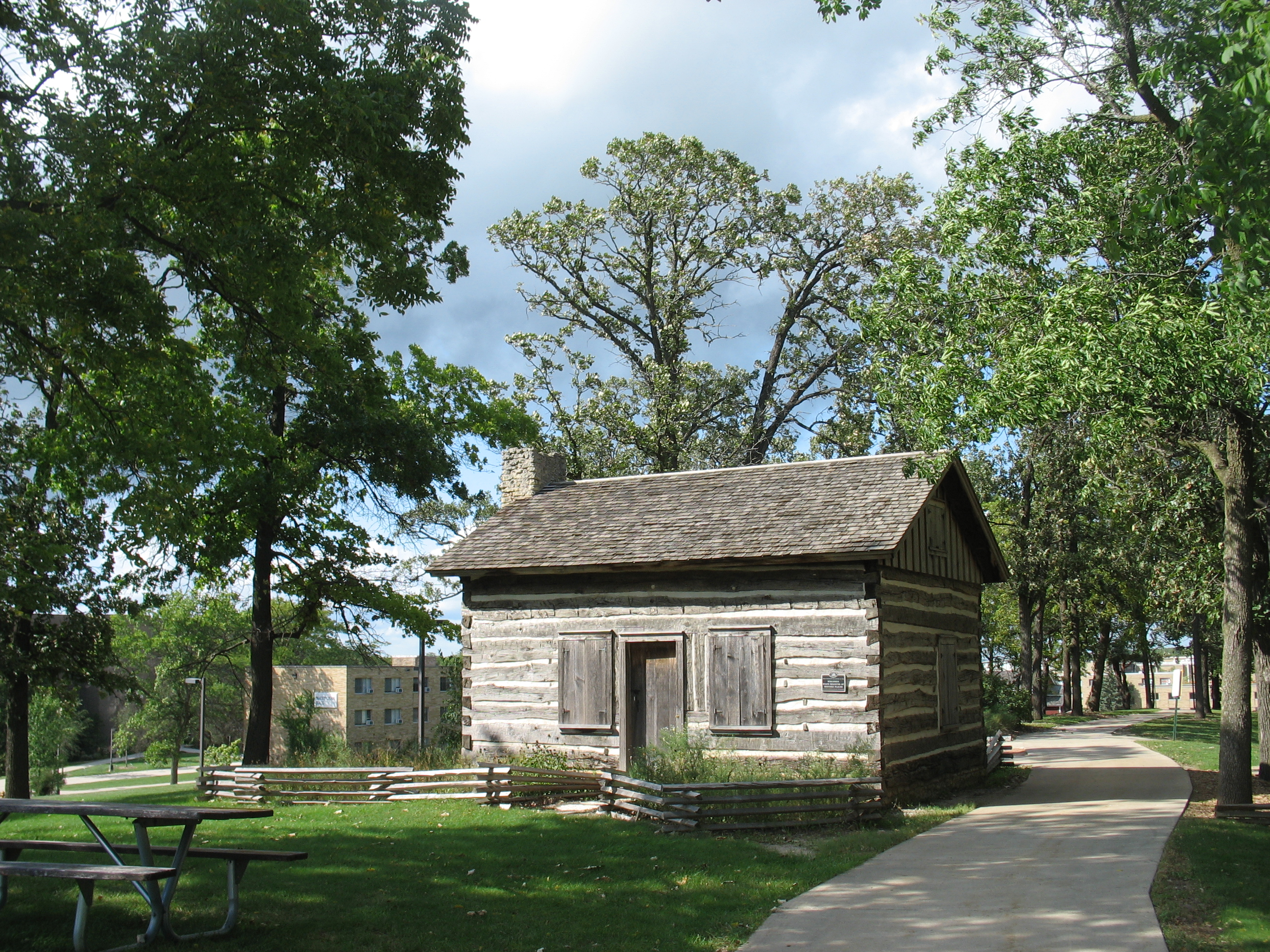 Halverson Log Cabin on the University of Wisconsin-Whitewater campus. Note: the Schoolhouse can be seen in the background if you follow the path on the right.